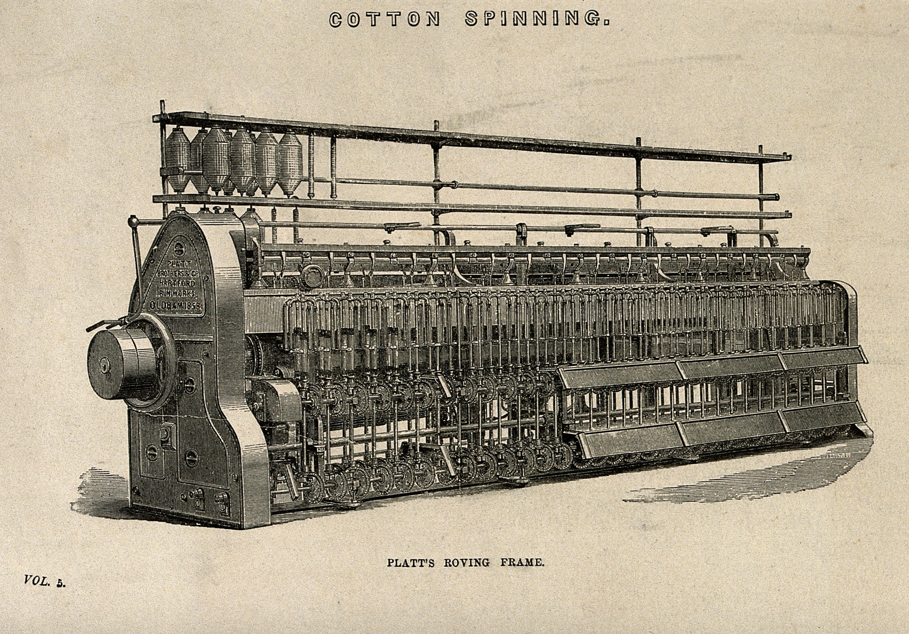 Textiles: a roving machine for cotton manufacture. Engraving, c. 1858. Iconographic Collections